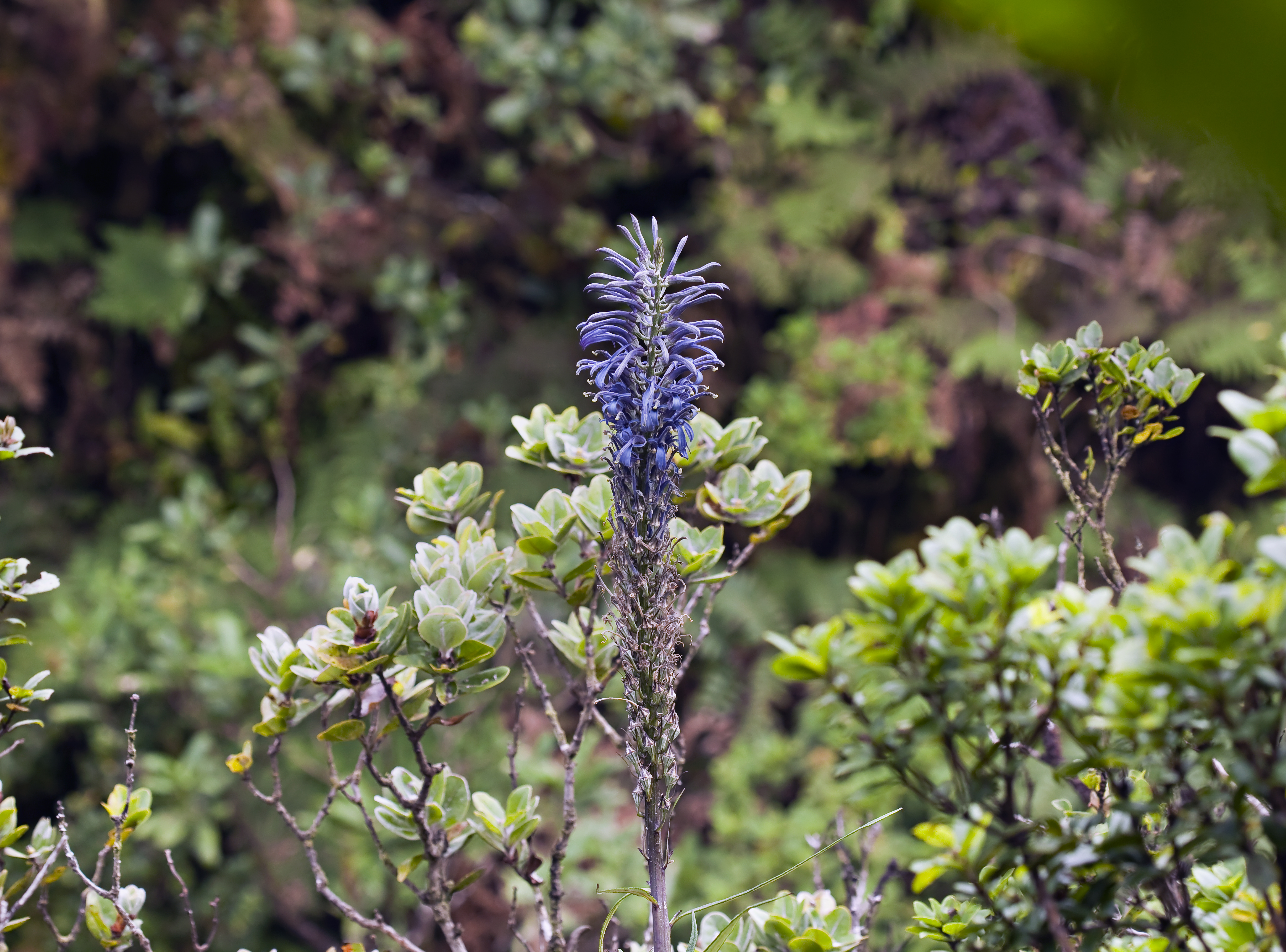 Lobelia hypoleuca (kuhi'aikamo'owahie) in bloom. In forest in the vicinity of Kilohana Lookout, near the rim of Wainiha Valley, Kauai.